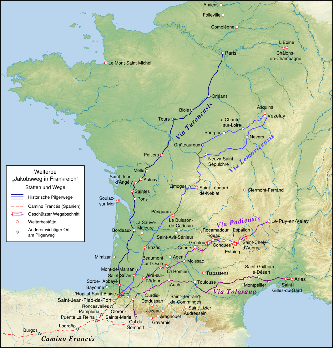 Map of the world heritage sites of the Way of St. James in France. German localization. Geographic data were processed with GMT, final layout done with Inkscape.